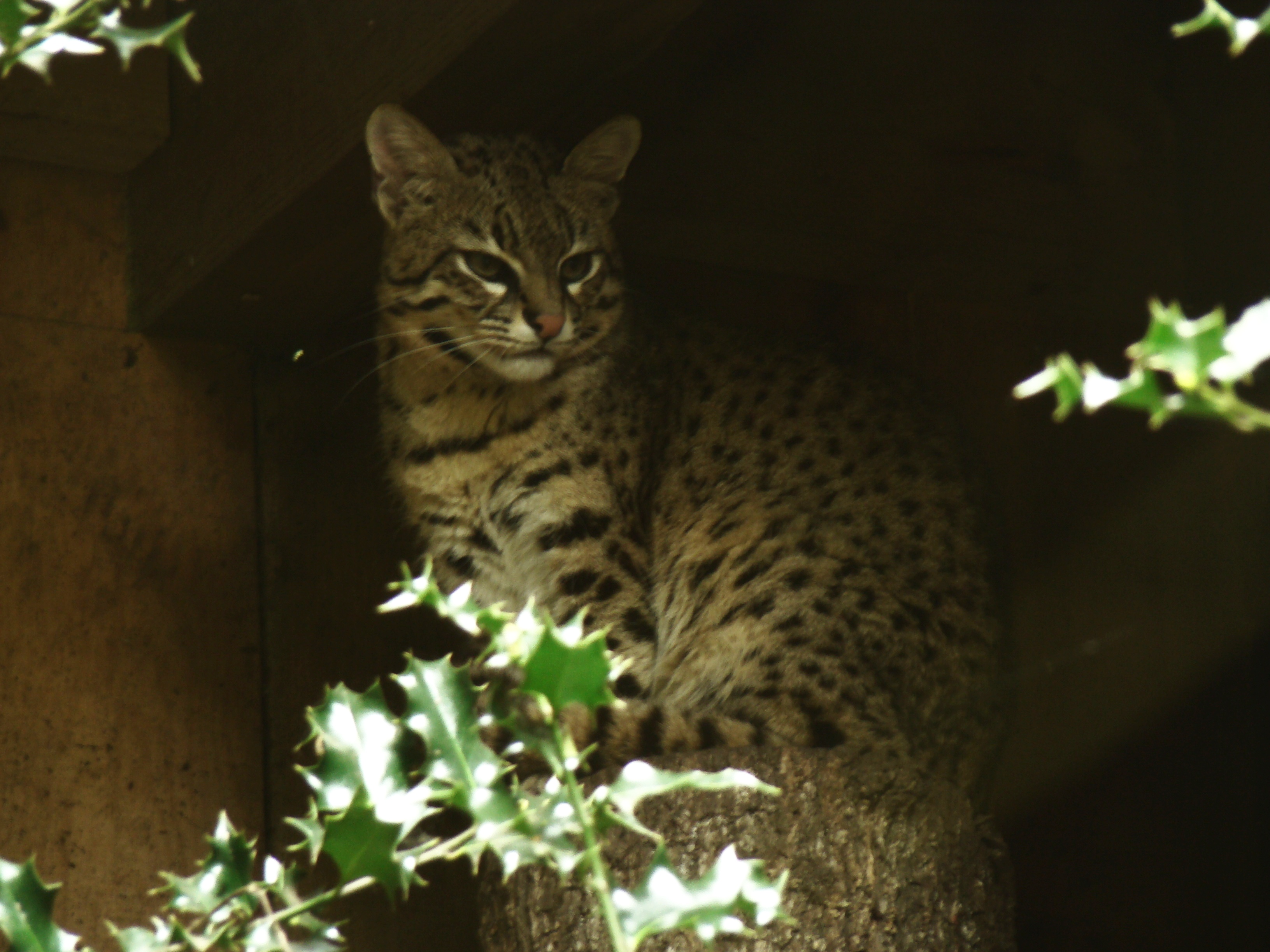 Geoffroy Cat (Leopardus geoffroyi) at Pont-Scorff Zoo.